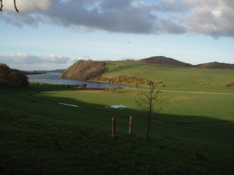 Knockeyon Hill and Lough Derravagh, County Westmeath, republic of Ireland